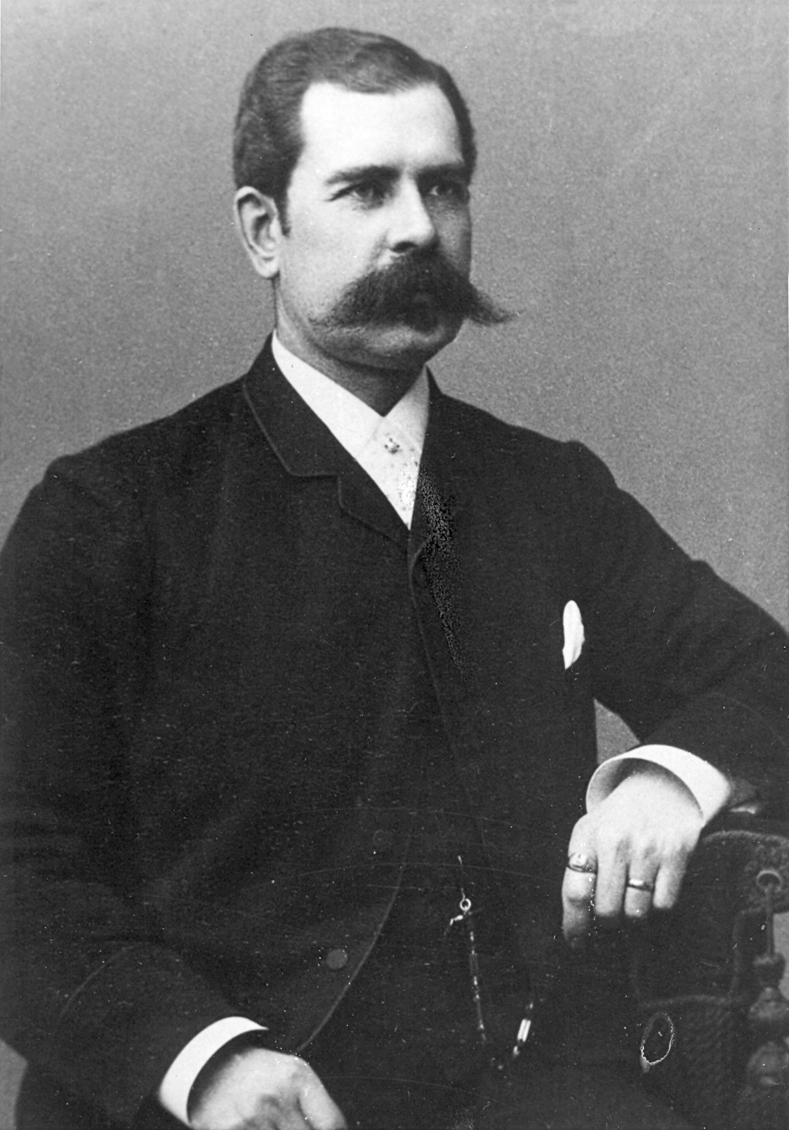 Alfred Söderlund, the founder of Långbro and Långsjo, suburbs in the southern part of Stockholm.